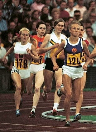 The 1500 meters final at the 1972 Olympics. Left-right: Ellen Tittel, Berny Boxem, Jennifer Orr and Karin Krebs